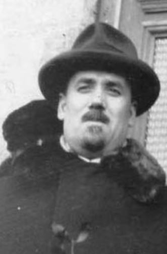 Romanian agrarianist politician Pan Halippa attending a public function in Nisporeni, Bessarabia.